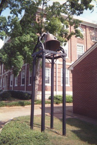 What's mine is yours. Toricr8zy